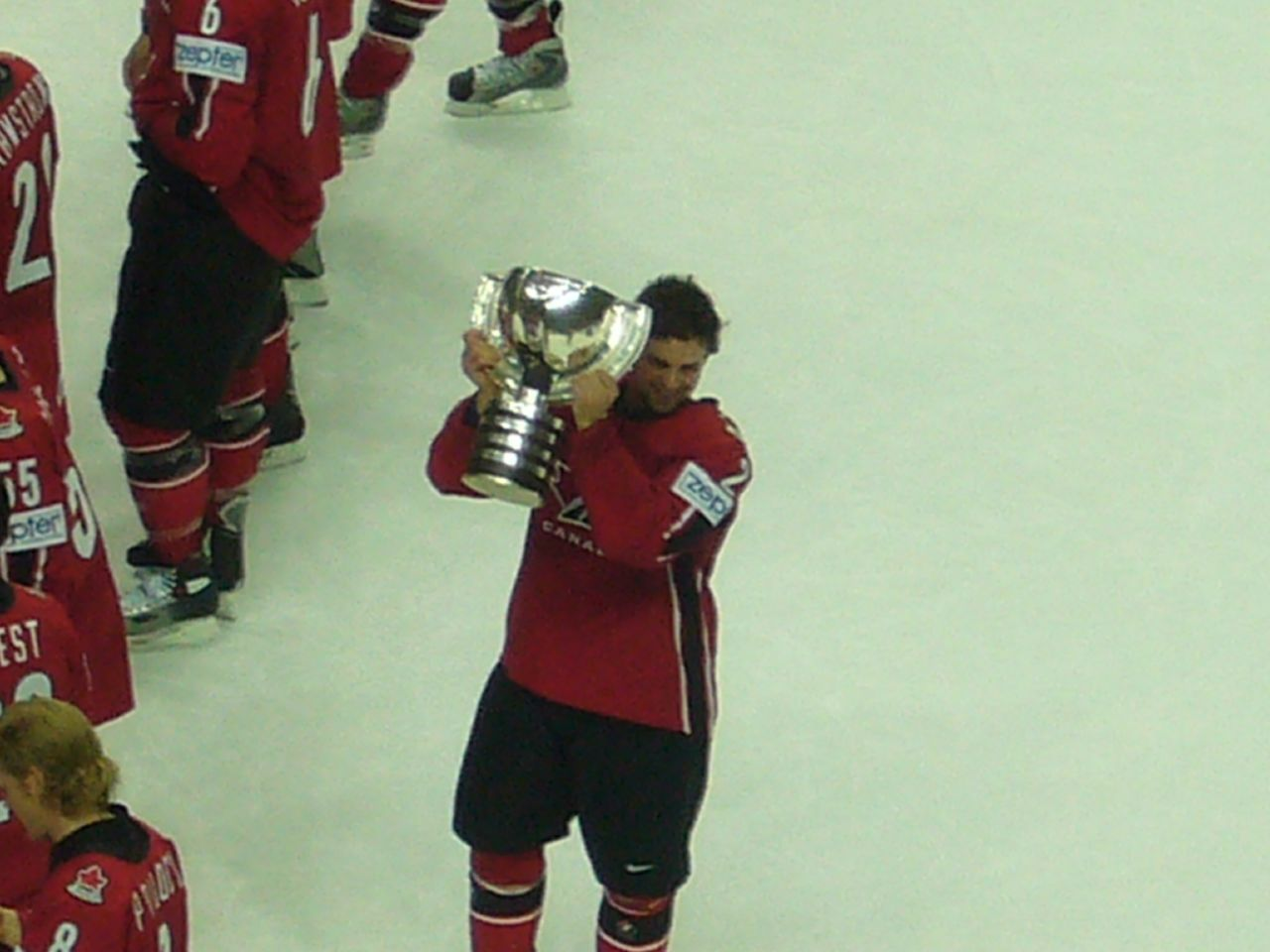 2007 IIHF WC, Dan Hamhuis with the cup